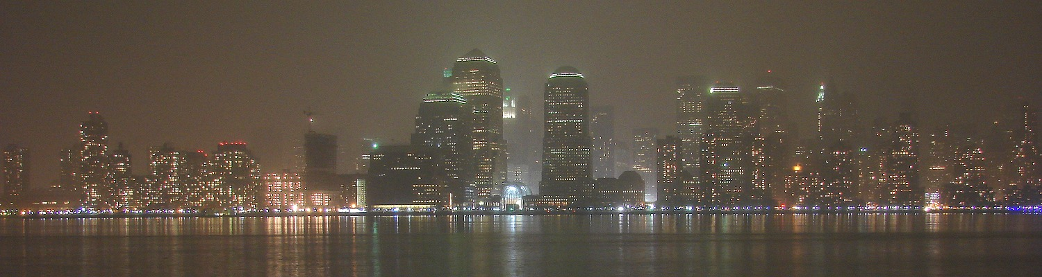 West lower Manhattan Island as seen at night from New Jersey